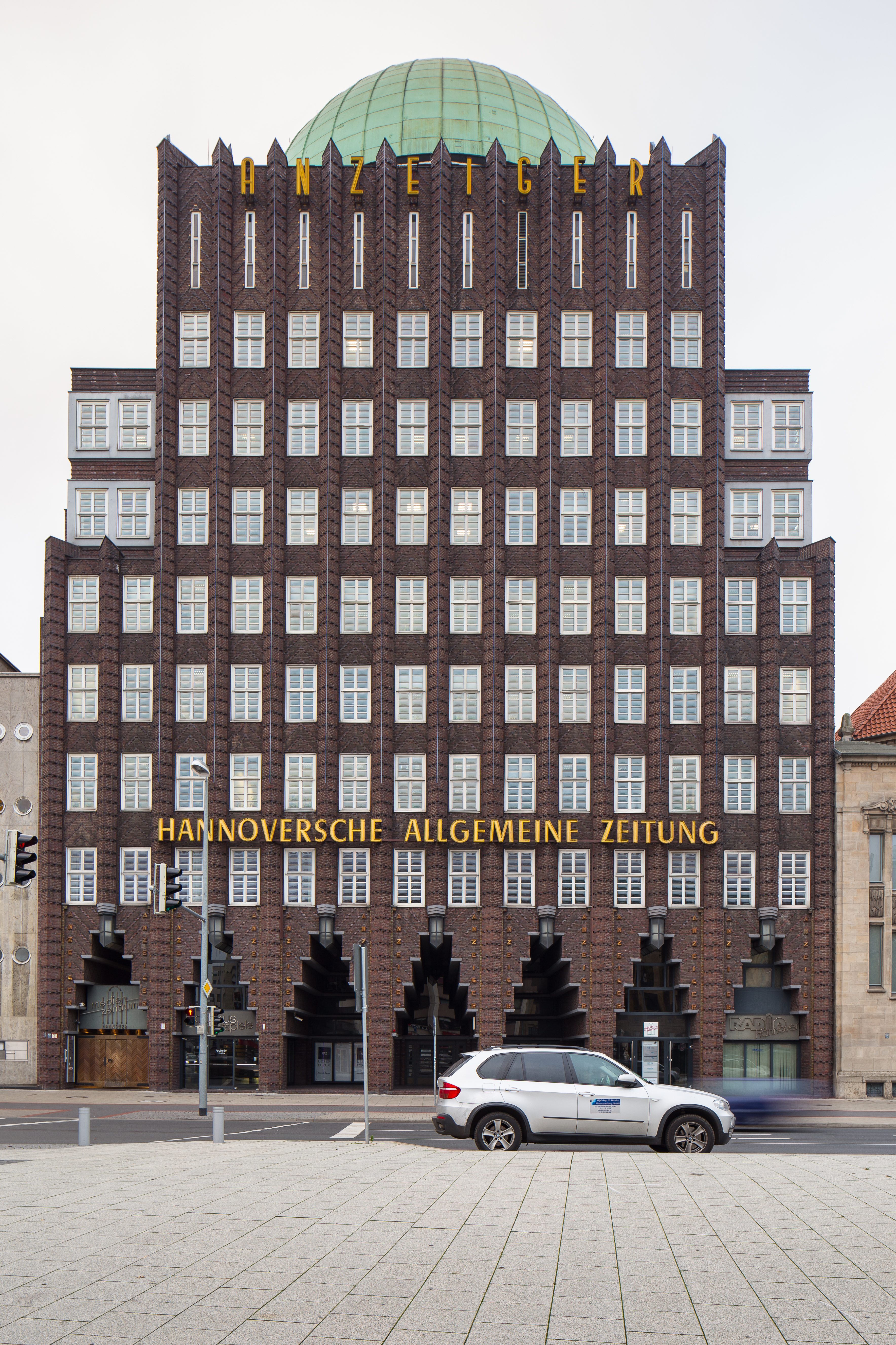 ”Anzeiger-Hochhaus” high-rise located at Goseriede in Hannover, Germany.